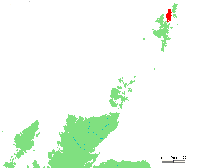 VK Yell.PNG (Orkney and Shetland islands, UK)